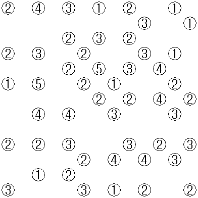 Hashiwokakero sample puzzle.